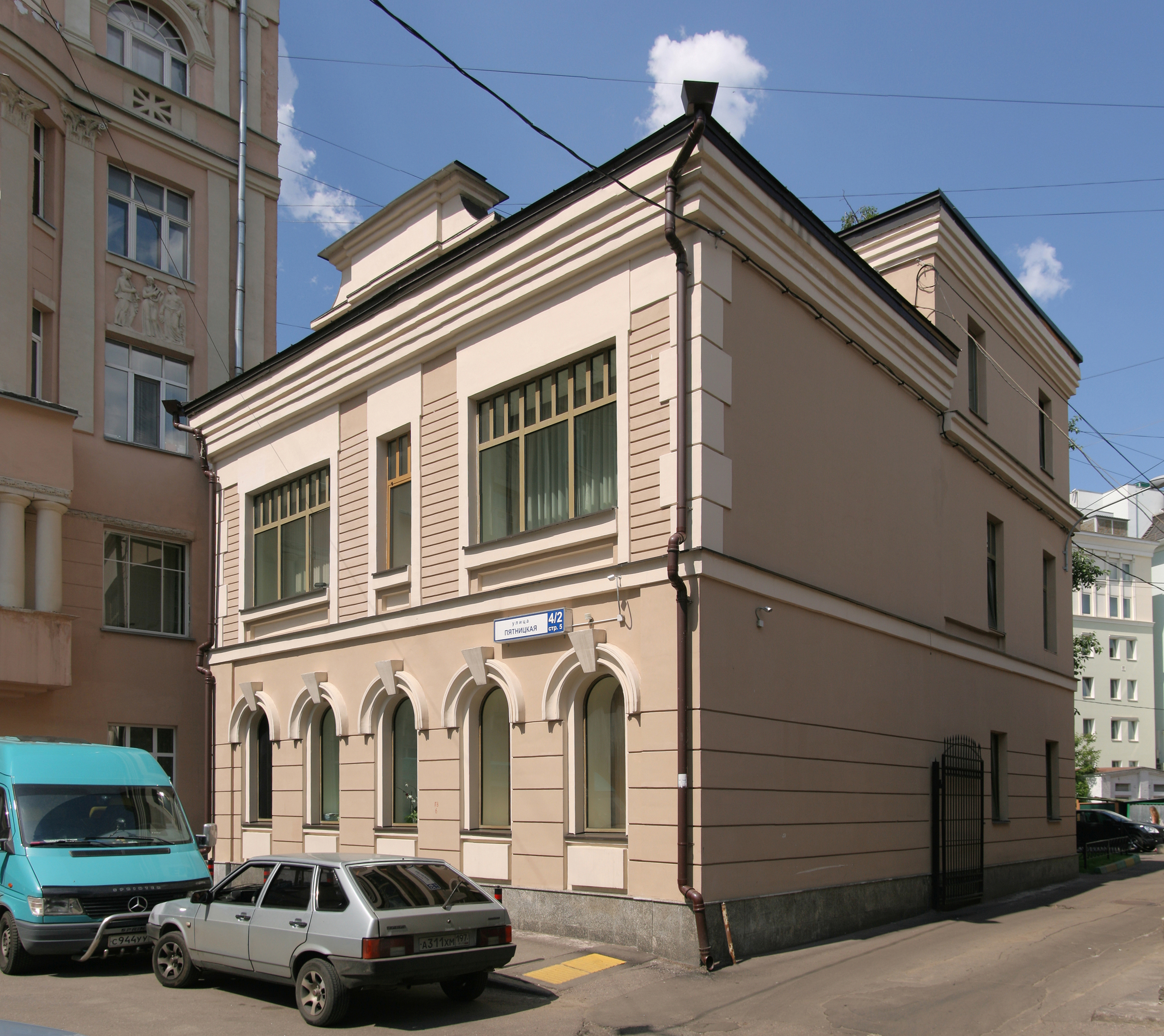 The Church House at Church of Saint John the Baptist pod Borom, Moscow